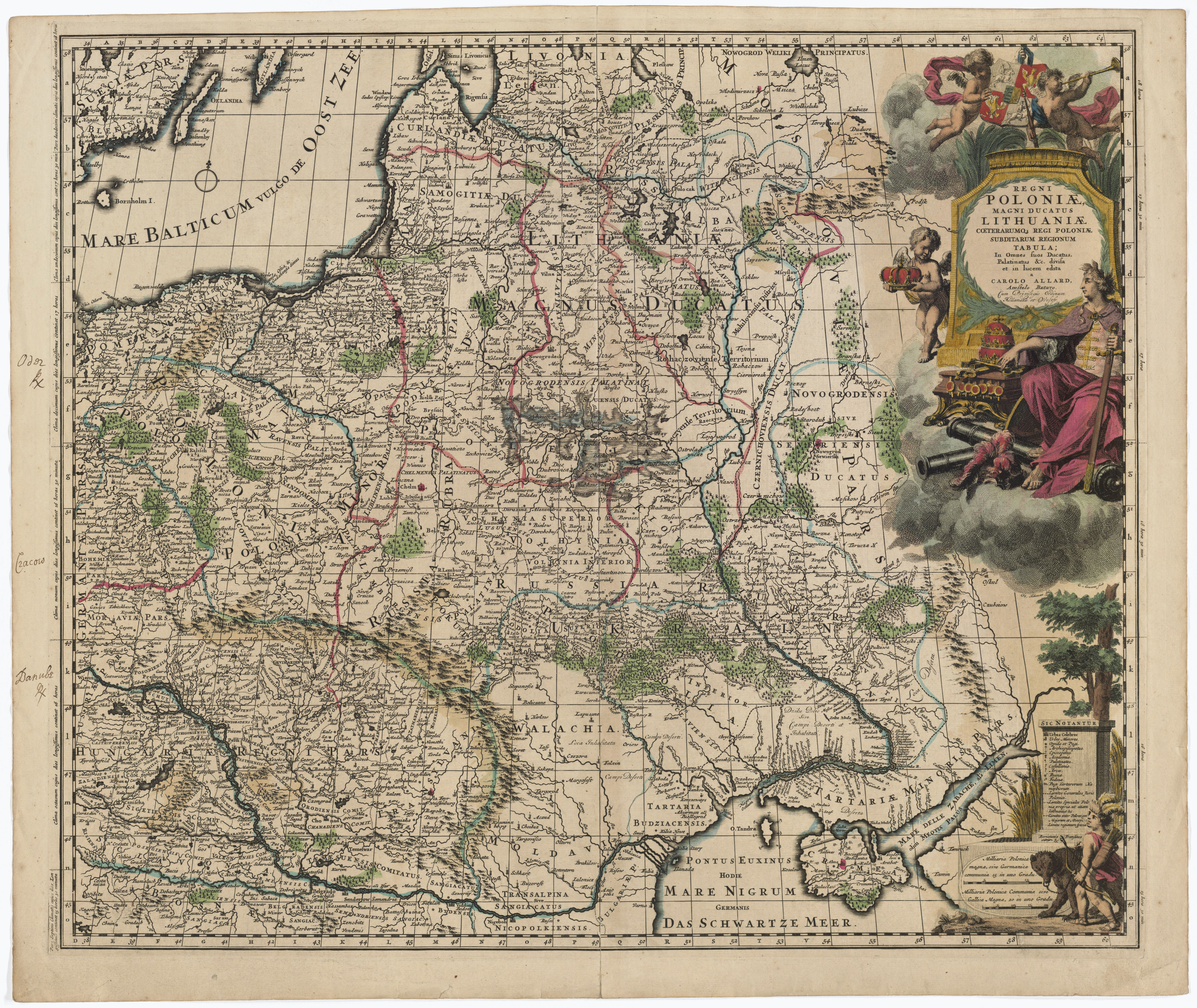 Map of the Polish-Lithuanian Commonwealth (57 × 48 cm).